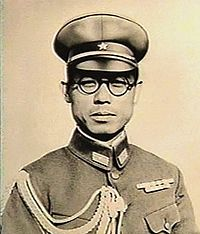 Portrait of Eizo Hori